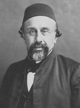 Mehmed Fuad Pasha (1814 – February 12, 1869)